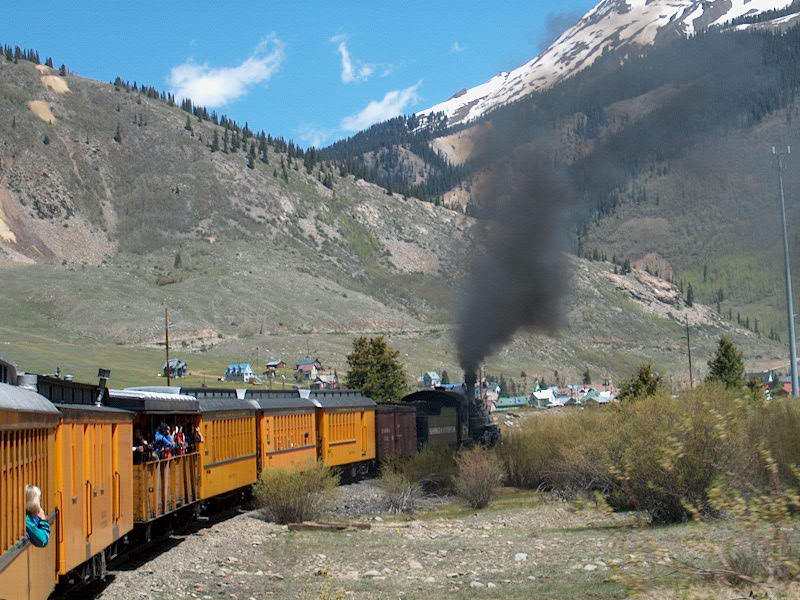 Durange and Silverton Narrow Gauge Railroad at Silverton.